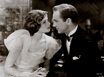 Publicity photograph for the film A Bill of Divorcement (1932), featuring its stars Katharine Hepburn and David Manners. Such images were taken on set during filming, or as part of an organized photo-shoot, by a studio photographer. They were then disseminated to the media and the public to promote the film (see Film still). This is definitely a film still rather than a screenshot, as the quality is too high (compare, for instance, with this screenshot from the film). A stock code can also be seen in the right hand corner. Public domain explanation This photograph does not appear to contain the copyright symbol ©, the word "Copyright", or the abbreviation "Copr.", as then required for copyright. If one looks at other film stills from A Bill of Divorcement where a stock code can be clearly seen, none of these include a copyright notice: [1], [2] By publishing a photograph without such a notice, under the terms of the 1909 Copyright Act (which was law until 1978) the image went into the public domain. If there is any chance that the photograph was copyrighted, under the terms of the 1909 Copyright Act it would have had to be renewed 28 years after publication. A search for copyright renewal records of 1960 ([3], [4]) reveal no trace that this occurred. Film industry author Gerald Mast has written: "According to the old copyright act, such production stills were not automatically copyrighted as part of the film and required separate copyrights as photographic stills ... Most studios have never bothered to copyright these stills because they were happy to see them pass into the public domain, to be used by as many people in as many publications as possible." (Film Study and the Copyright Law (1989) p. 87.)